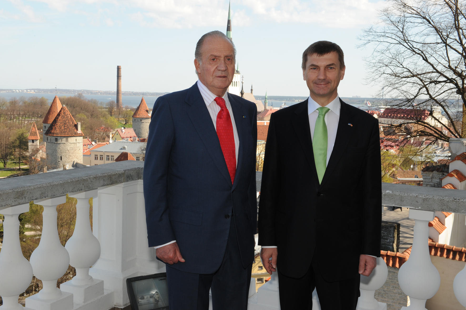 Juan Carlos I of Spain, Andrus Ansip. Spanish Royal Couple's State Visit to Estonia